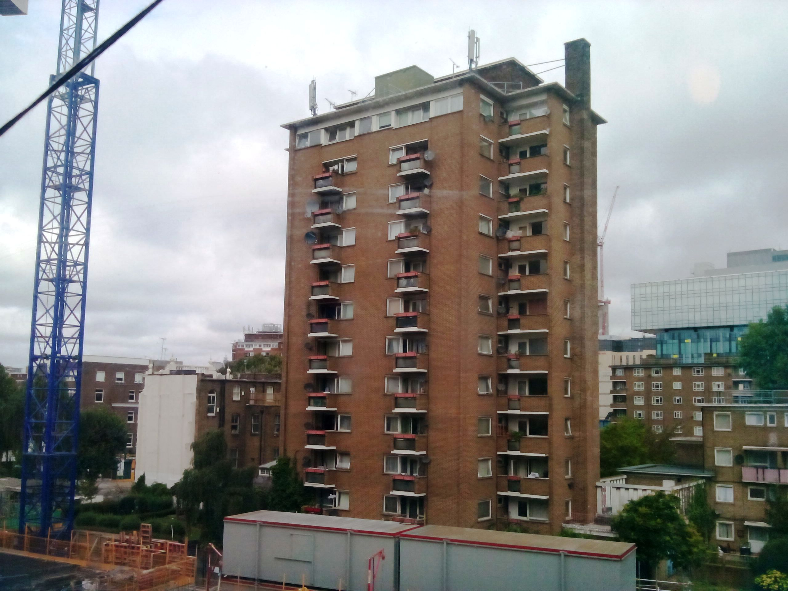 Veiw of Helen Gladstone House (Apartment block), Nelson Square, London SE1 0QB. View is taken from Sanctuary Students - Manna Ash House 8-16 Pocock St, London SE1 0BW.